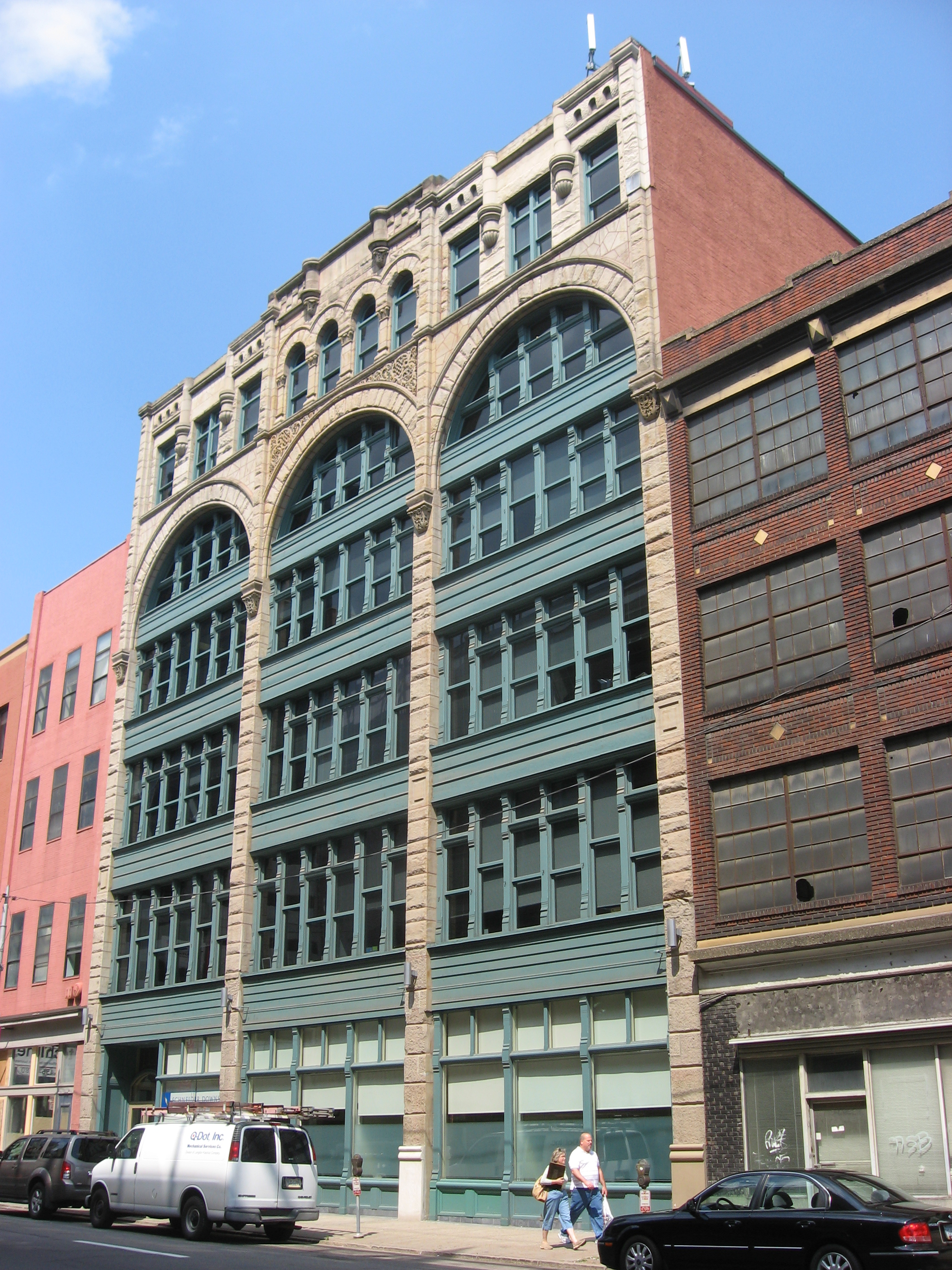 Front of the Byrnes & Kiefer Building, located at 1127-1133 Penn Avenue in the Strip District neighborhood of Pittsburgh, Pennsylvania, United States. Built in 1892, it is listed on the National Register of Historic Places.